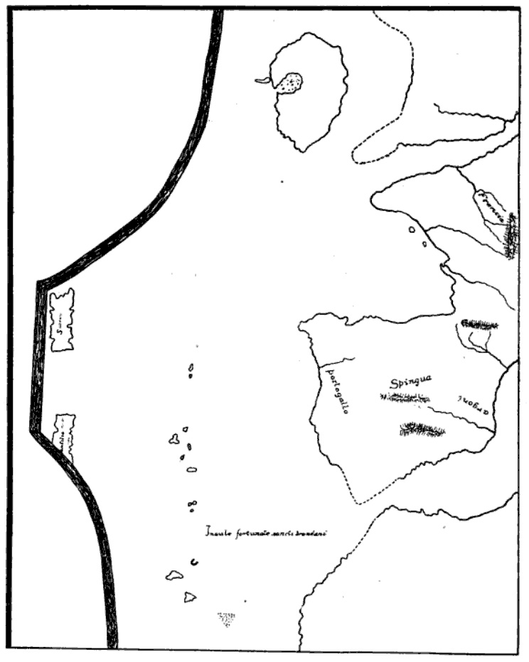 Sketched of a portion the Weimar map, an anonymous 15th C. Italian portolan held by the Grand Ducal Library in Weimar. Sometimes dated 1424, although more recent historians believe it was composed sometime between 1460s and 1490s, probably by the cartographer Conte di Ottomano Freducci of Ancona, or one of his relatives. This particular sketch, showing only part of the portolan (focused on the central Atlantic islands, esp. the fictional island of Antillia) was made by William Henry Babcock (d.1922) from Weimar library photographs and published in his 1917 article "Indications of Visits of White Men to America before Columbus", in F.W. Hodge, editor, Proceedings of the Nineteenth International Congress of Americanists, Washington, DC., p.476.